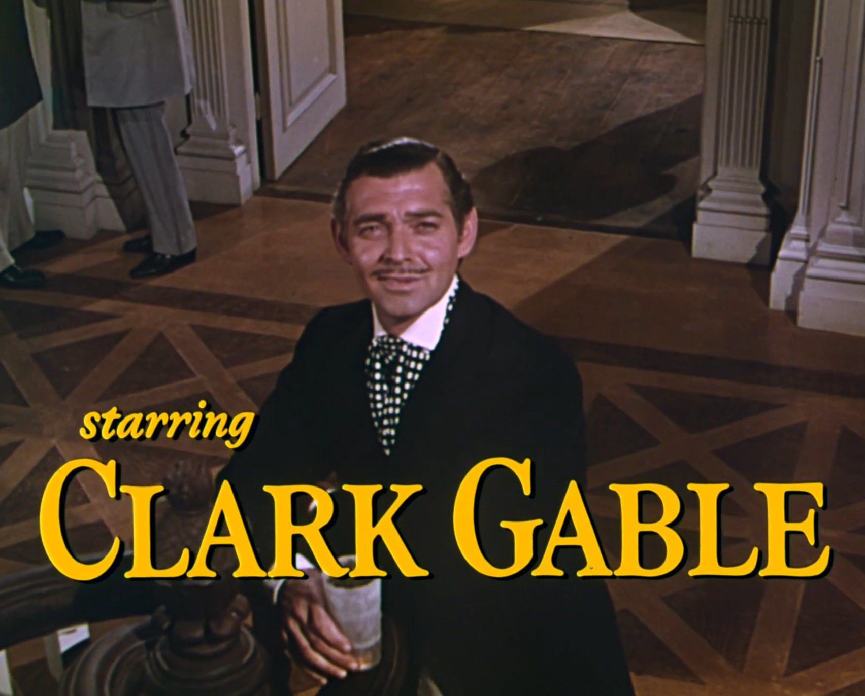 Cropped screenshot of Clark Gable from the trailer for the film Gone with the Wind